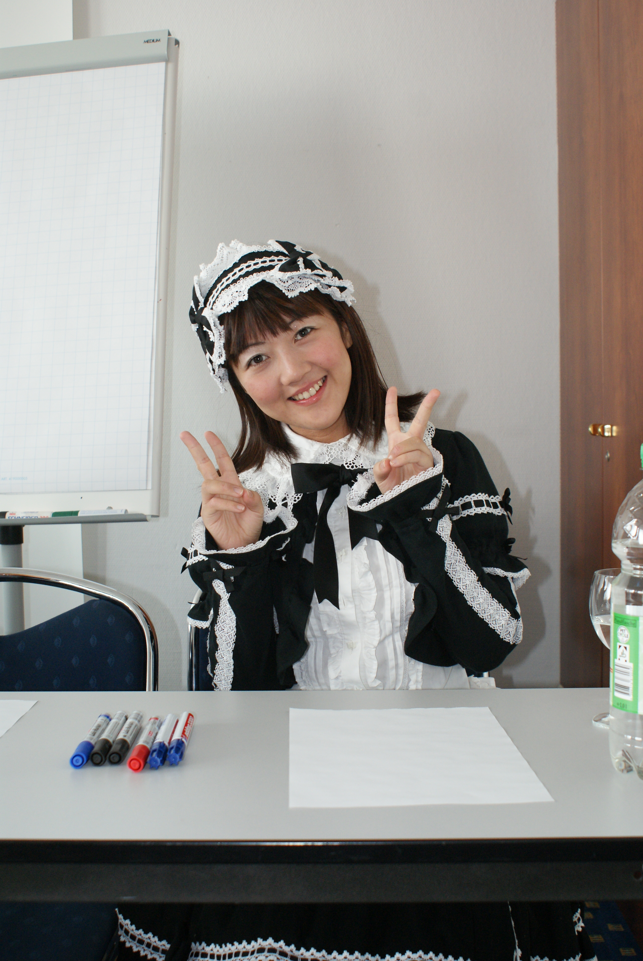 Picture made at Connichi 2008. Person in picture gave permission through translator (de/ja)